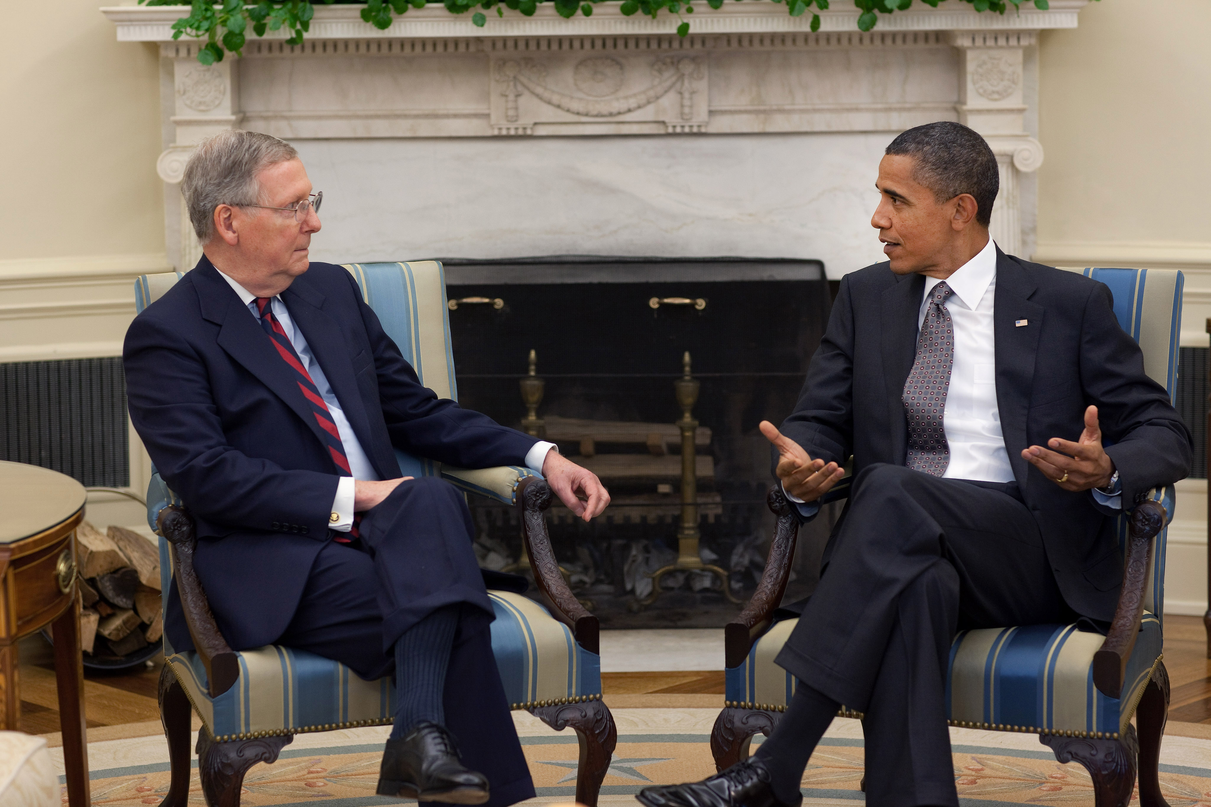 President Barack Obama meets with Senate Minority Leader Sen. Mitch McConnell, R-Ky., in the Oval Office, Aug. 4, 2010. (Official White House Photo by Pete Souza)